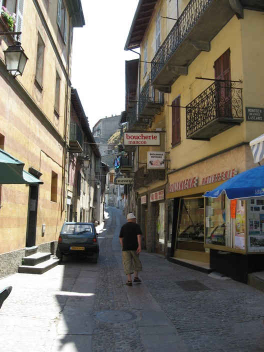 Tende street